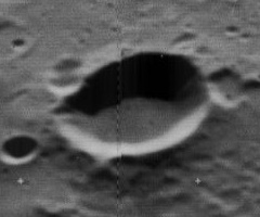 Oblique view of McAuliffe, on the far side of the moon, facing west.